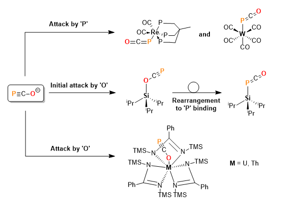 Scheme which shows that the PCO anion can bind via both the phosphorus and oxygen atoms.